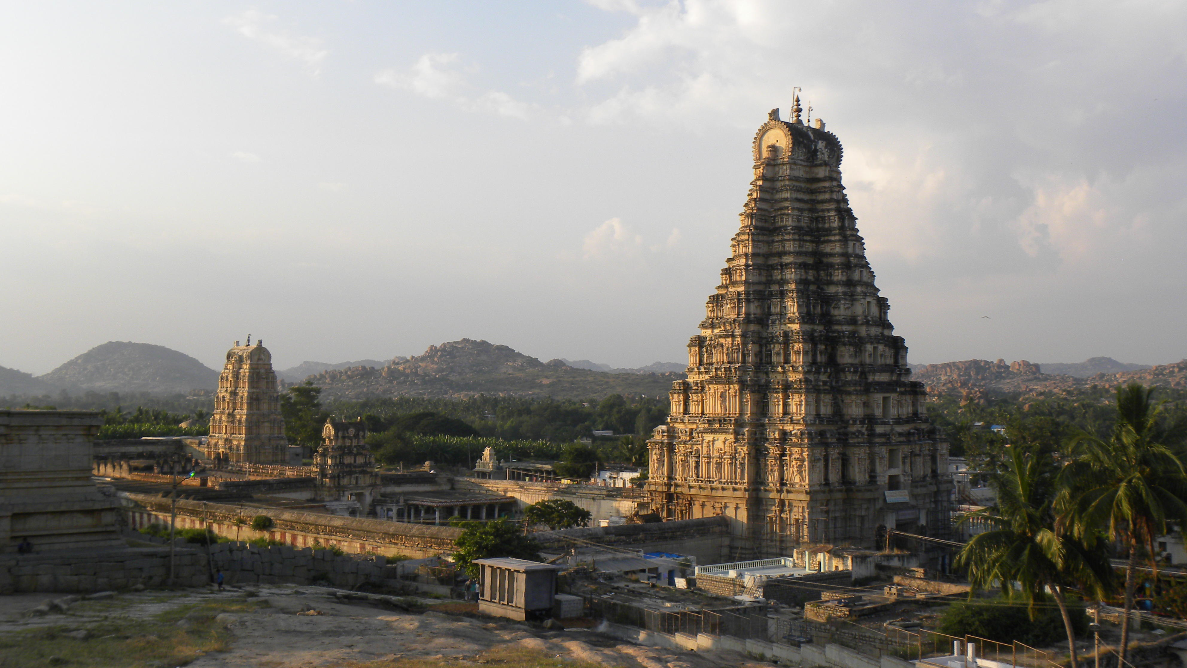 Virupaksha Temple from the top at Hampi